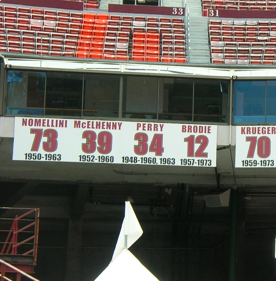 San Francisco 49ers retired numbers displayed in Candlestick Park: Leo Nomellini, Hugh McElhenny, Joe Perry, John Brodie, and Charlie Krueger